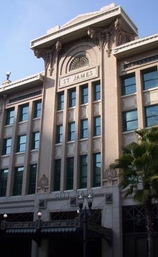 St. James Building, Jacksonville, Florida